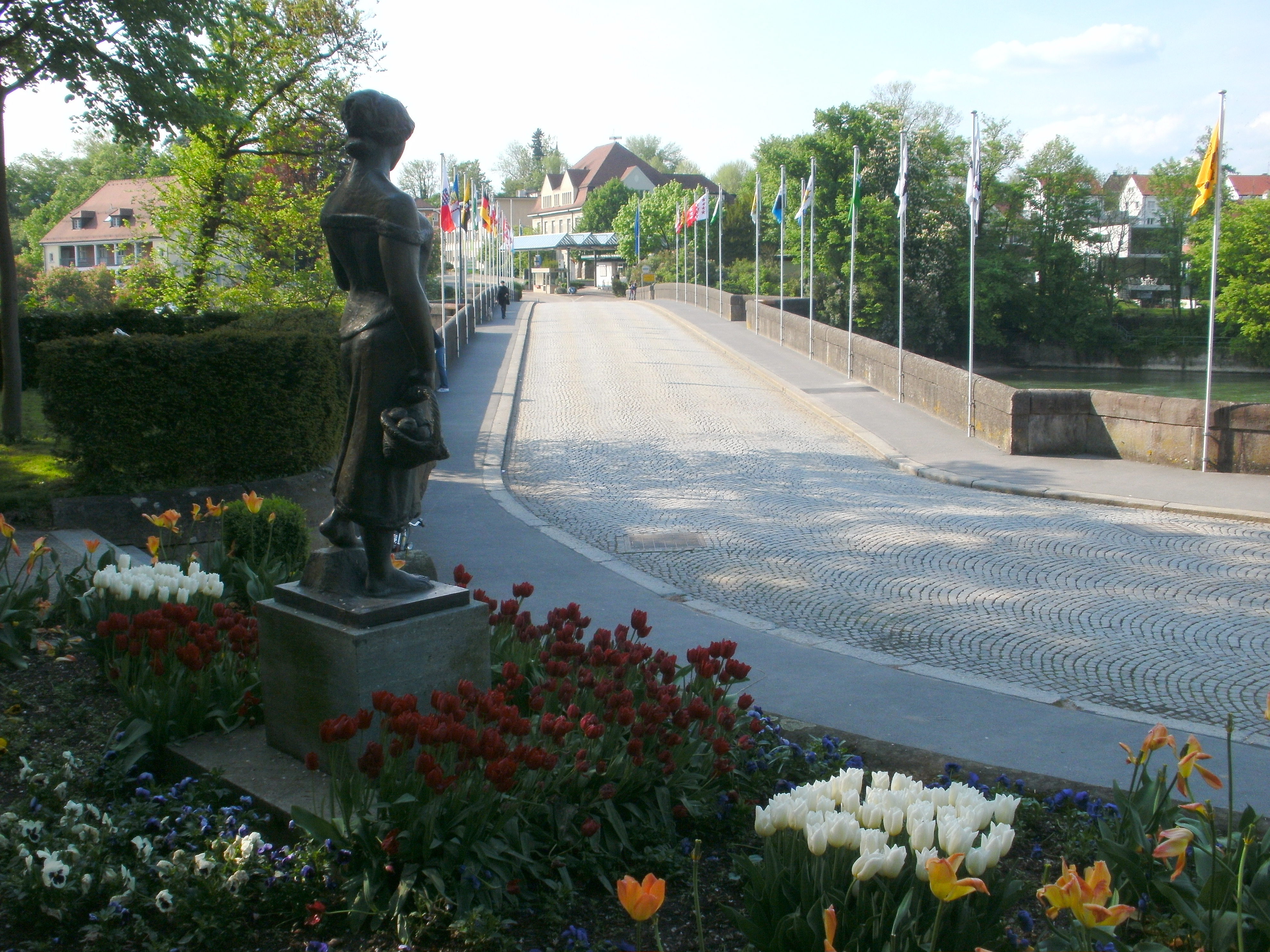 Bronze sculpture at the old Rhine bridge between the cities Rheinfelden (Baden), Germany and Reinfelden AG, Switzerland. View towards Germany.